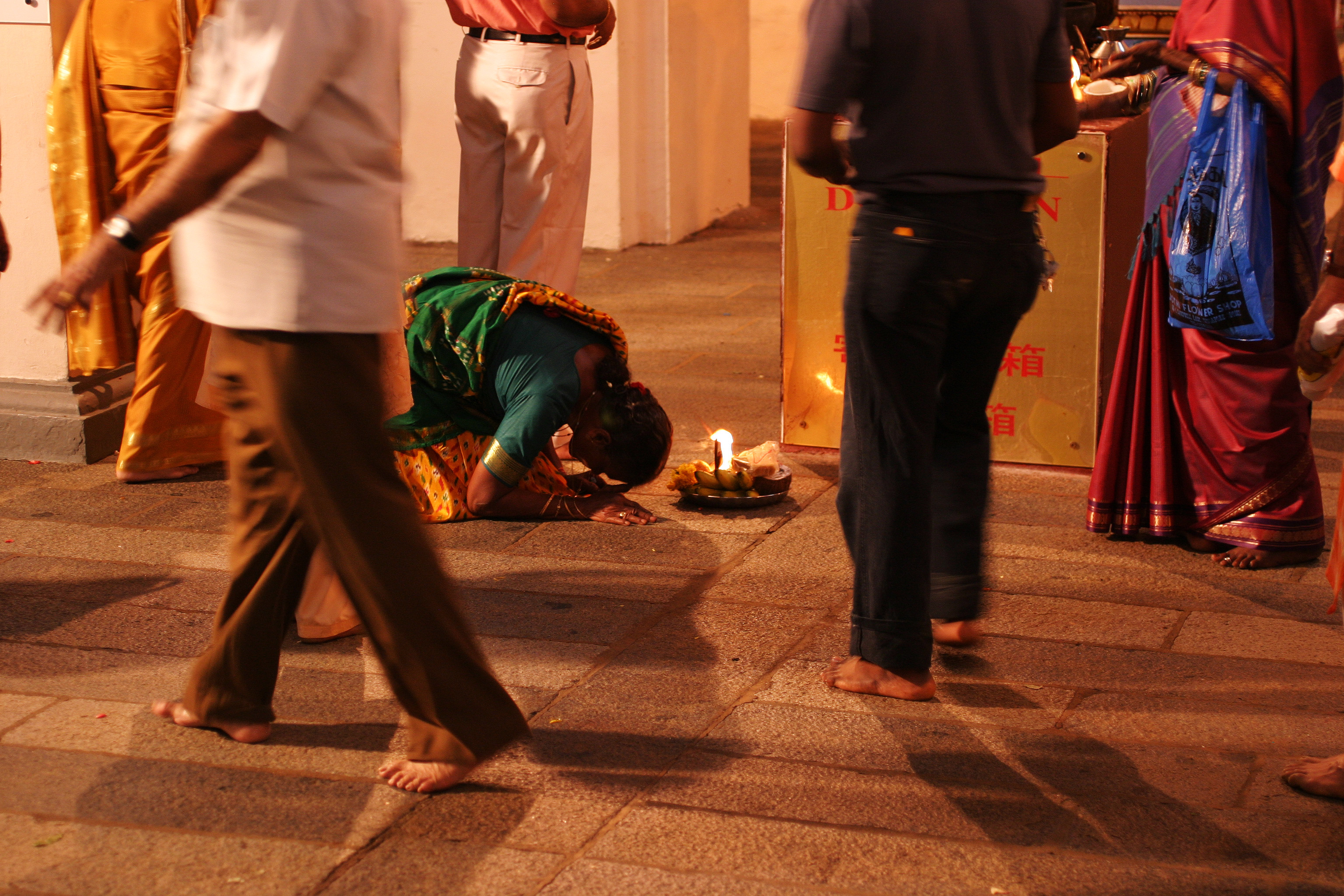 Original caption: A woman praying after giving her offering at the annual Thimithi or Fire walking Festival at Sri Mariamman Temple in Singapore. Singapore, Singapore, October 2006